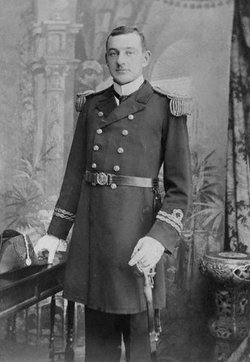 Henry Tingle Wilde